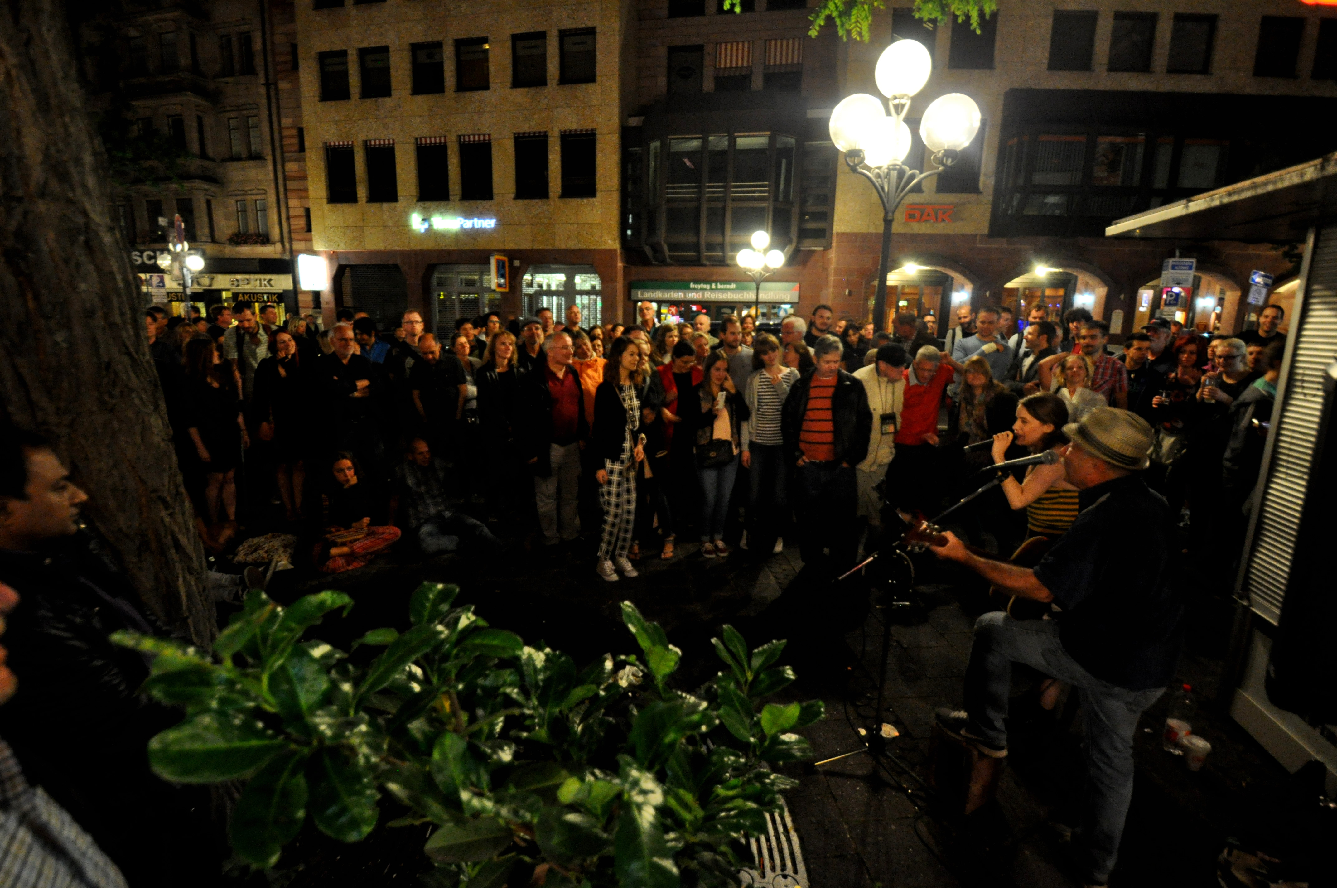 Buskers / street artists, 40th music festival 'Bardentreffen' 2015 at Nuremberg, Germany Festivalsommer This photo was created with the support of donations to Wikimedia Deutschland in the context of the CPB project "Festival Summer".